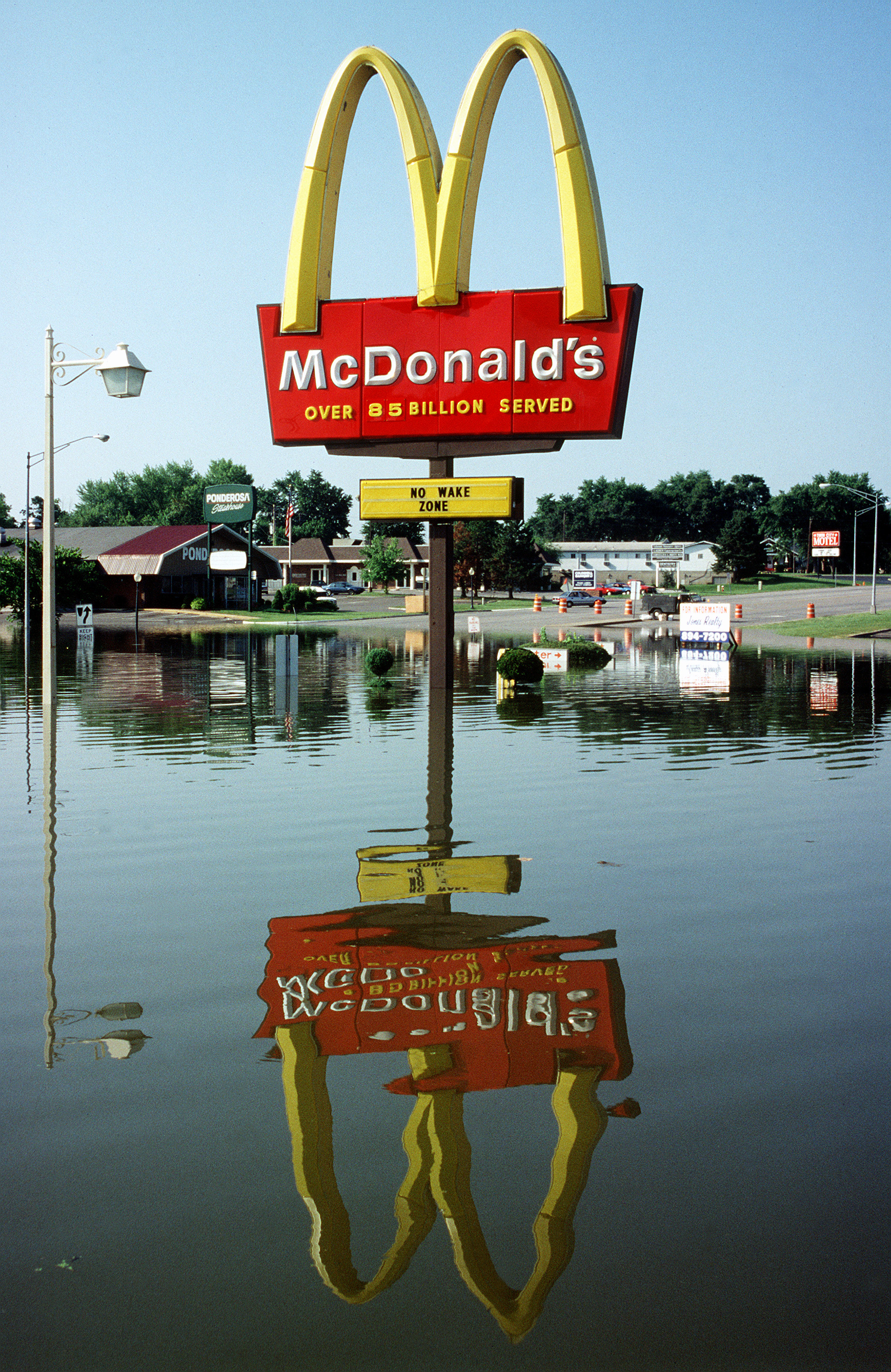 McDonald's under water after flooding from the Mississippi river.Location: FESTUS, MISSOURI (MO) UNITED STATES OF AMERICA (USA)